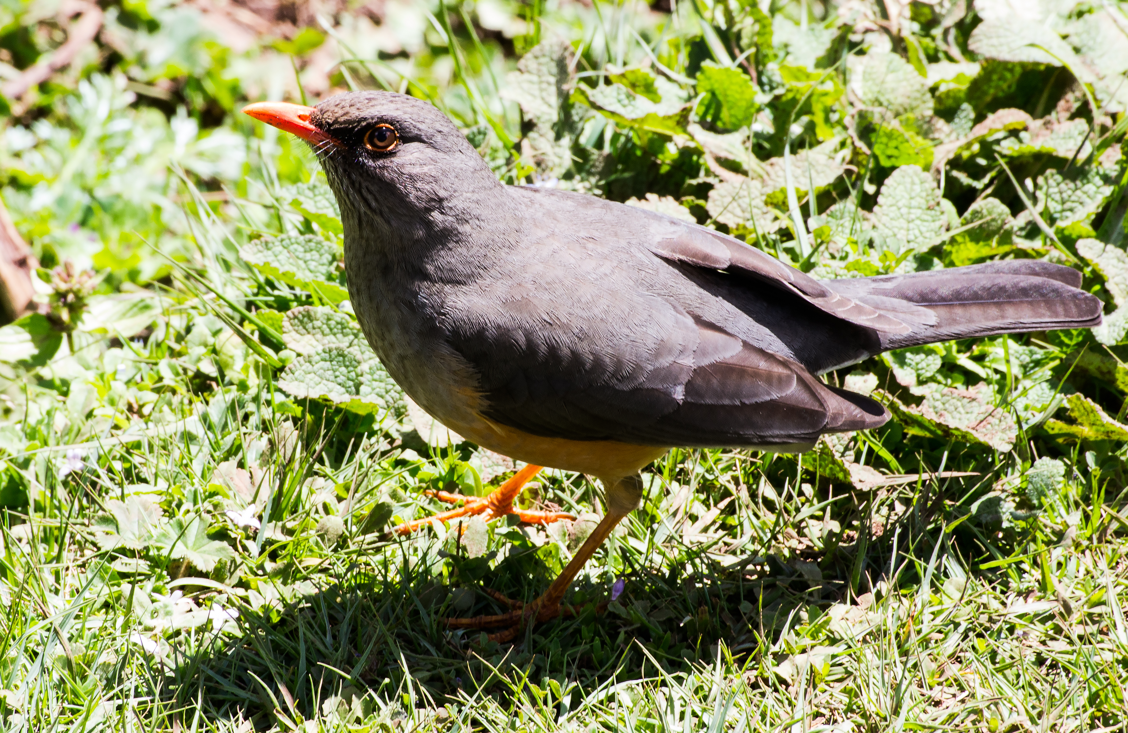 Abyssinian thrush, turdus abyssinicus abyssinicus